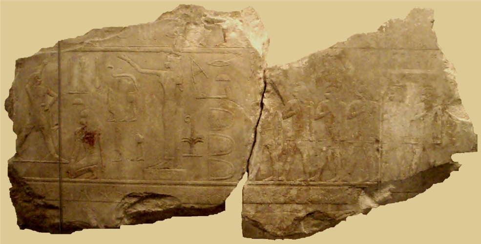 Scenes from a Sed Festival, thought to represent that of the pharaoh Snefru. This piece was "re-used" in the building of the Middle Kingdom pyramid complex of Amenemhat I. Circa 2575-2551 B.C.